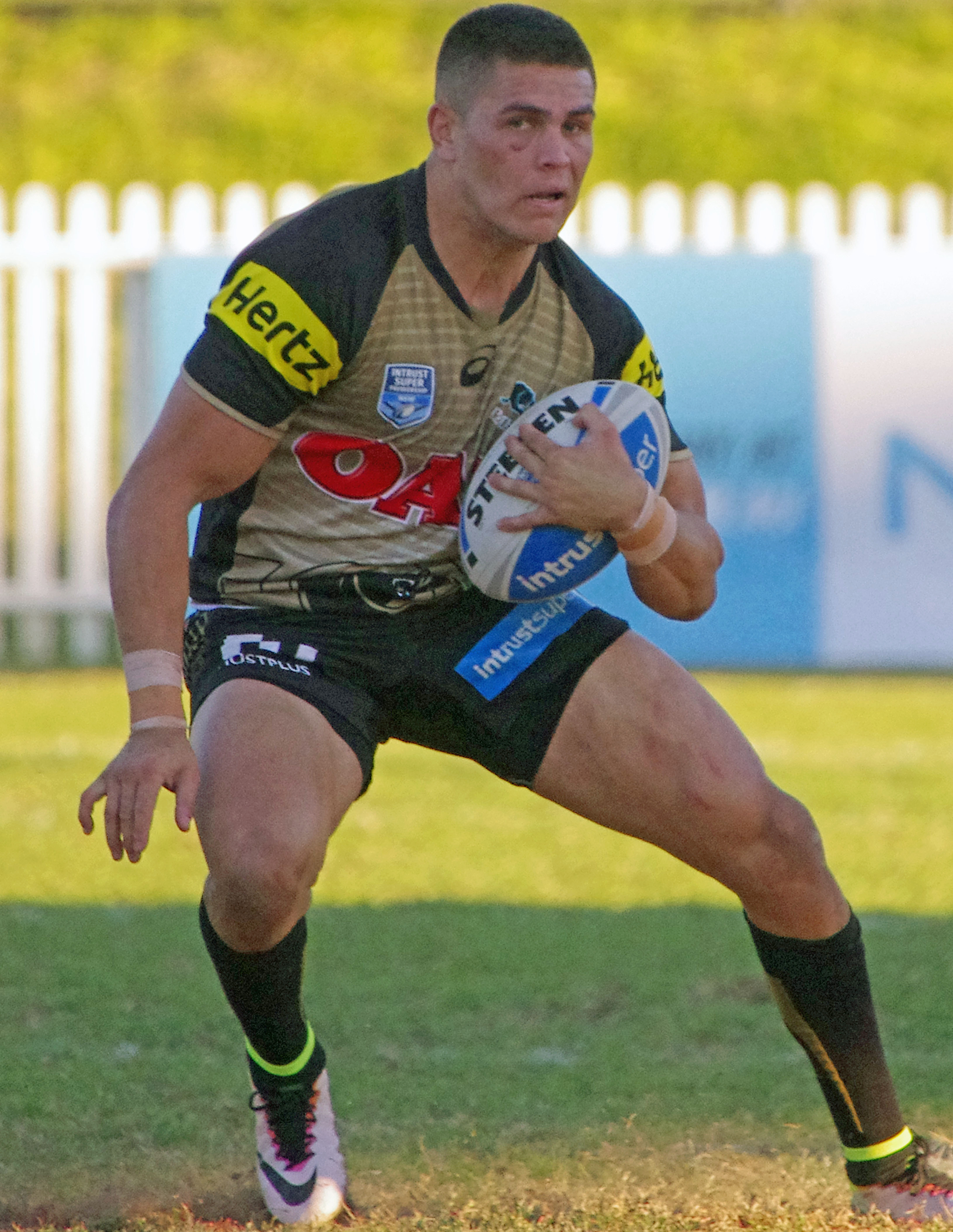 Will Smith